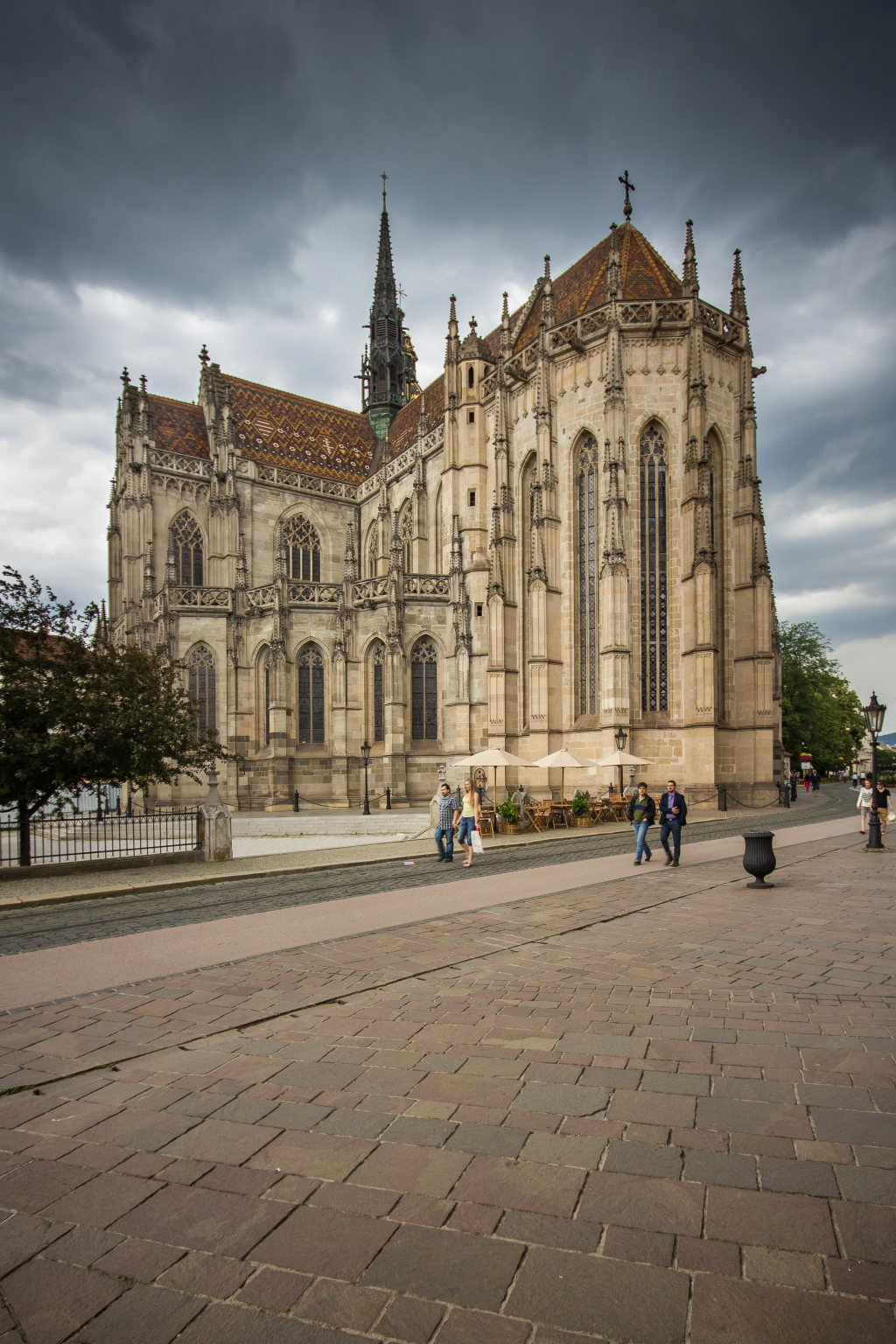 Dóm svätej Alžbety from main street